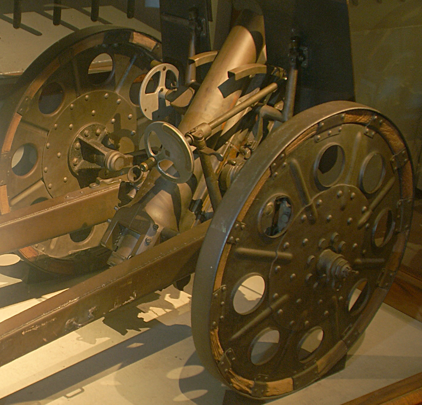 Caption: Japanese Type 92 howitzer (1932). A "Battalion Howitzer," this type was used in infantry battalions for high angle support fire. Now on display at Battery Randolf US Army Museum, Honolulu.